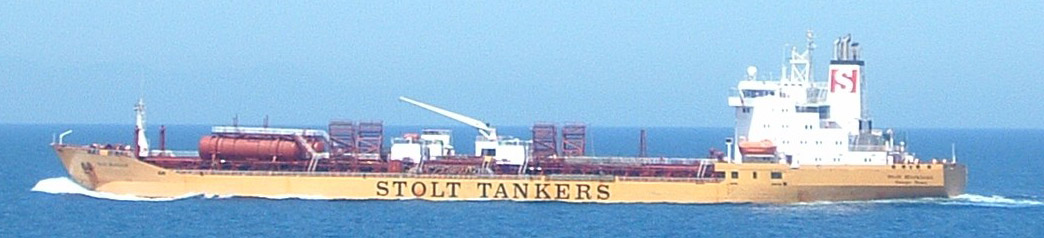 Cropped version of Image:Slot Tanker.JPG. Cargo vessel STOLT at sea ; probably the chemical tanker Stolt Markland, chemical/oil products carrier, 18994 ums, 1991.